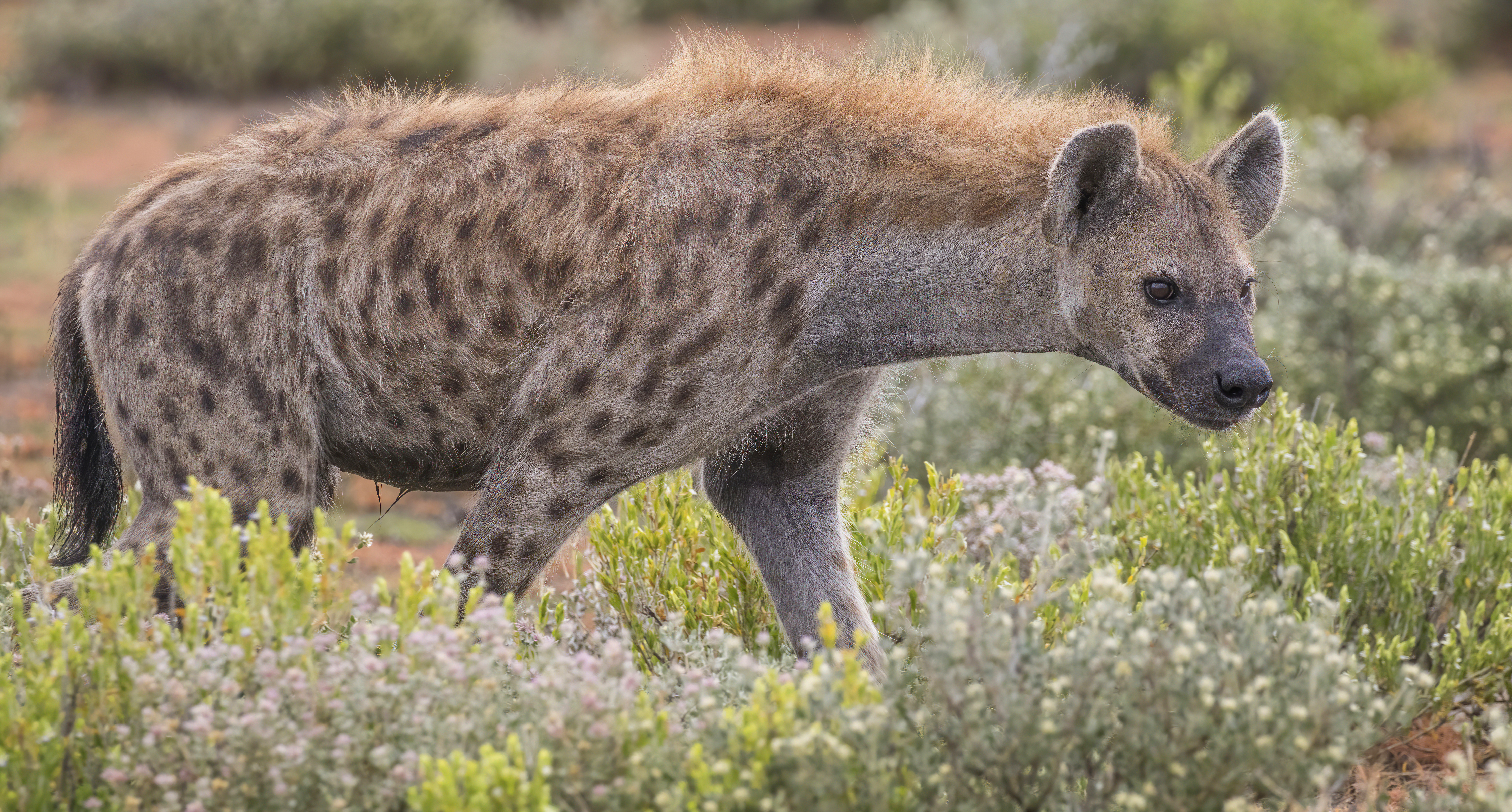 Spotted hyena (Crocuta crocuta), Etosha National Park, Namibia